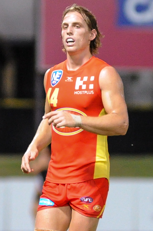 Darcy MacPherson playing for the Gold Coast Suns' reserves in May 2017.